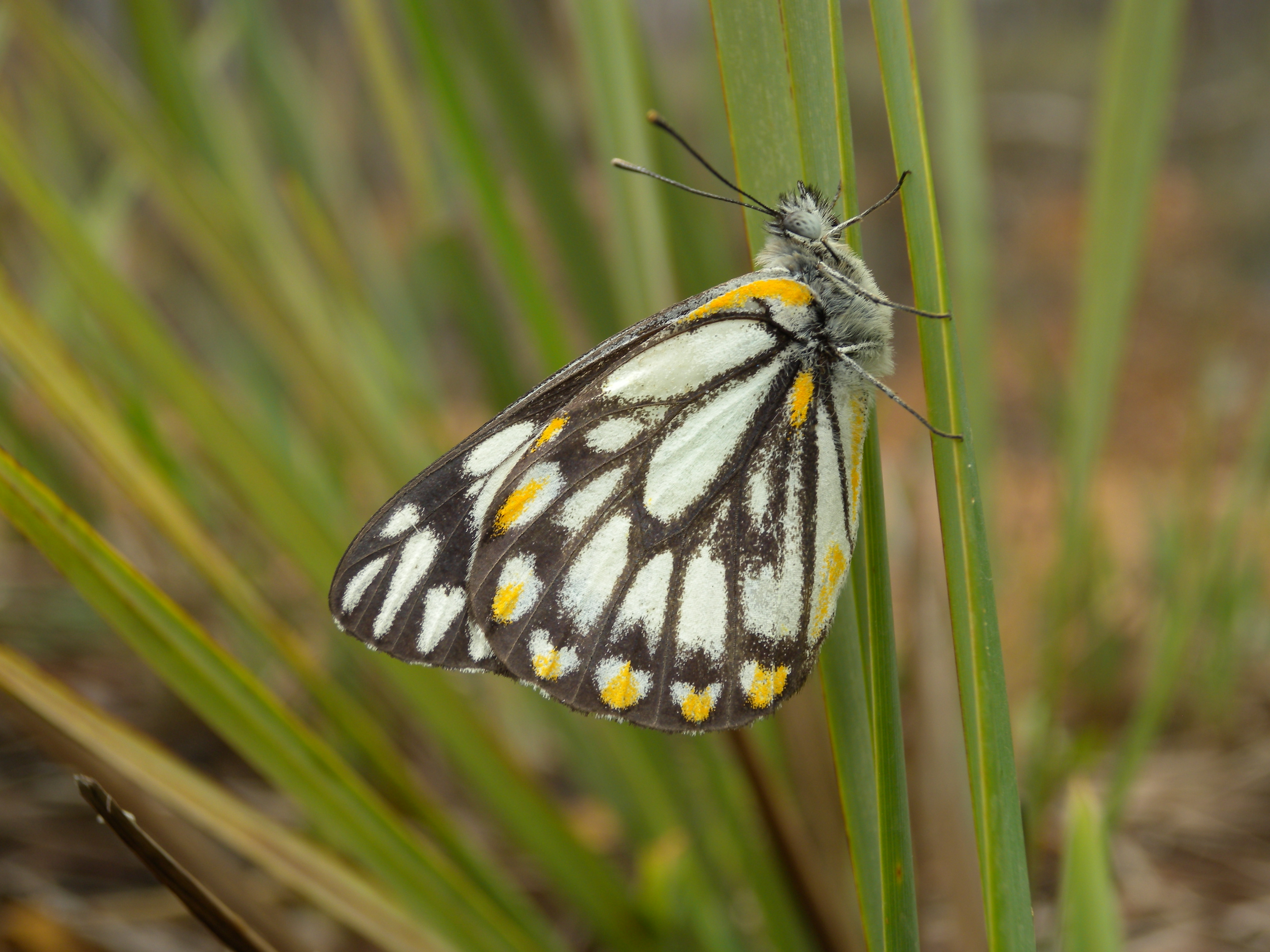 Belenois java (Linnaeus, 1768), Caper White, Black Mountain, Canberra, ACT, 7 October 2009